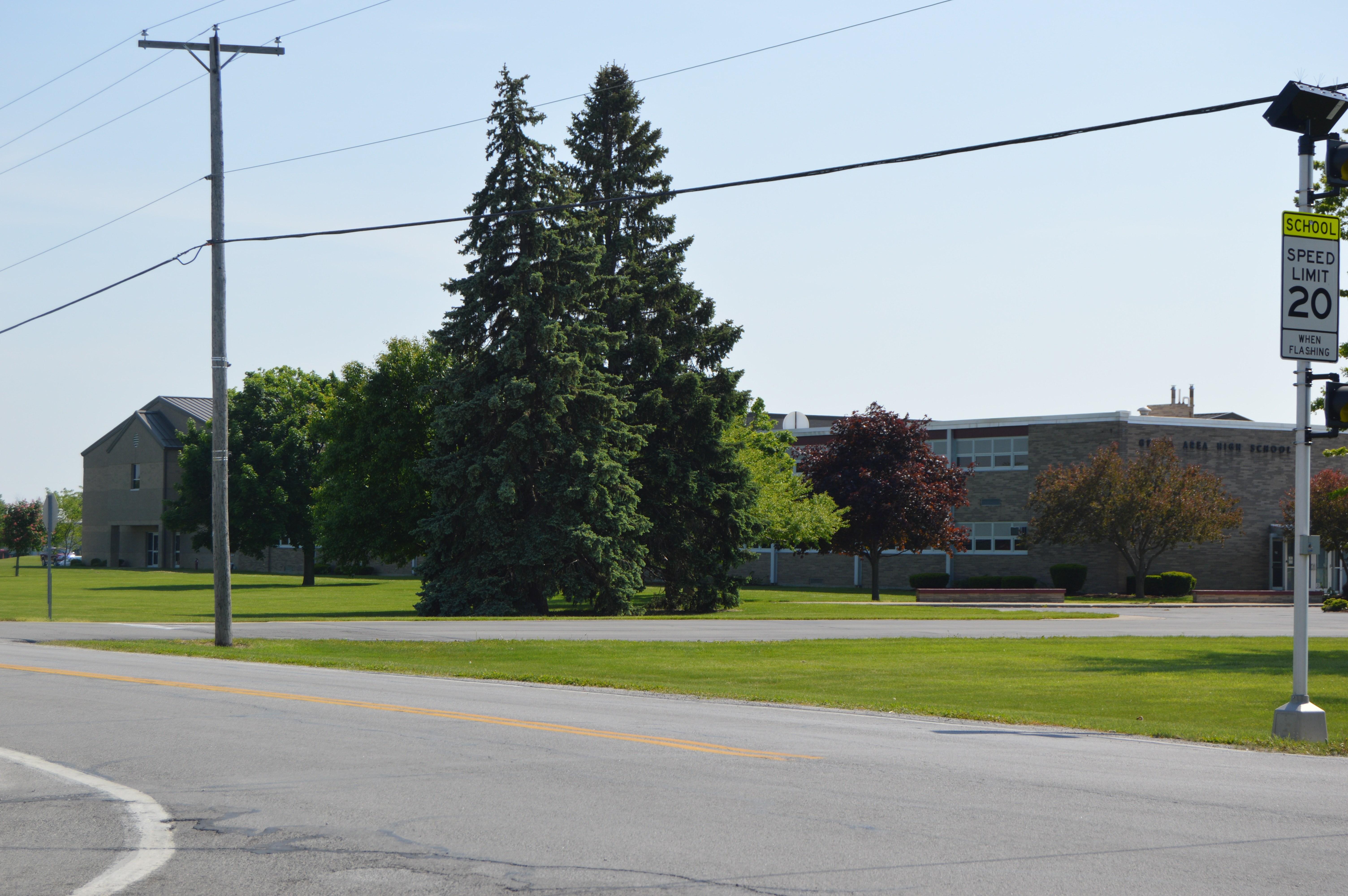 Front of Genoa Area High School, located at 2980 N. Genoa Clay Center Road just south of Clay Center on the northern edge of Clay Township, Ottawa County, Ohio, United States.